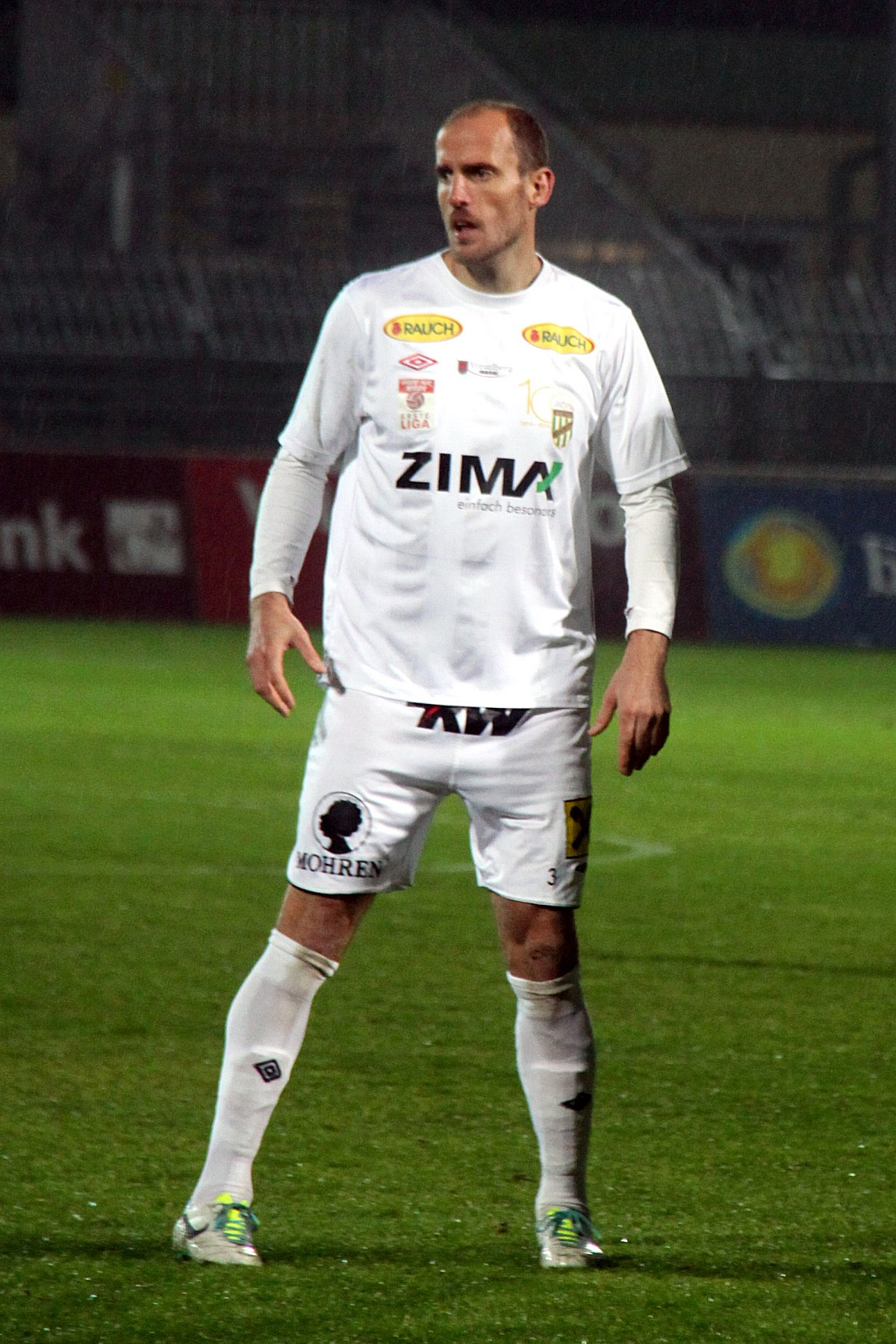 Austrian First League: SV Mattersburg vs. SC Austria Lustenau (2:2) at 2013-11-22 in the Pappelstadion of Mattersburg. – The photo shows Jürgen Patocka (SC Austria Lustenau).